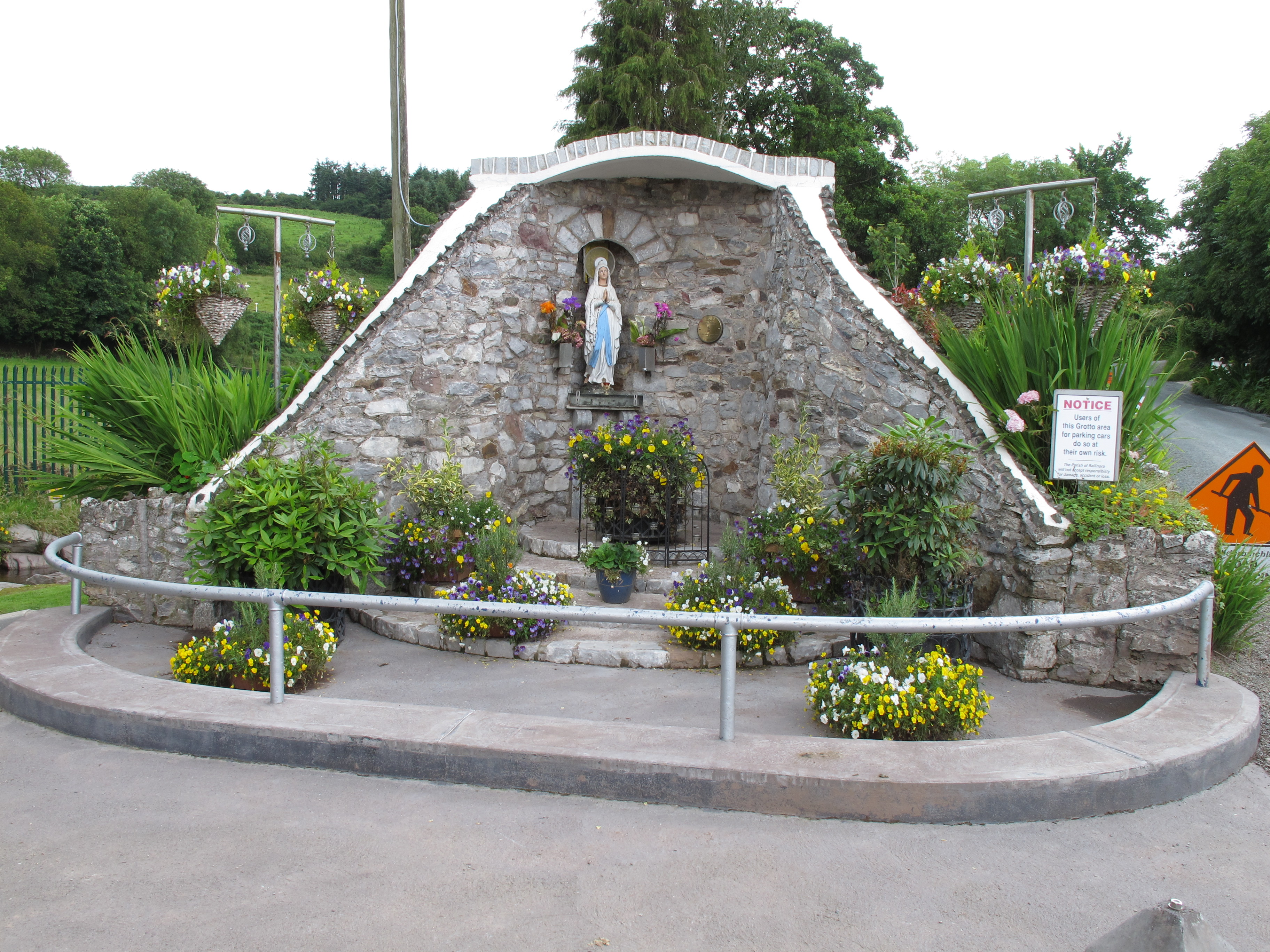 Grotto at Curraheen